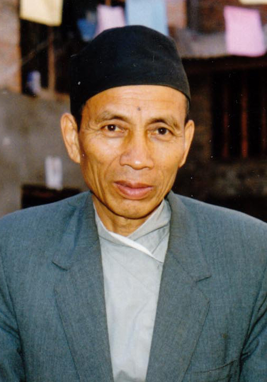 Portrait of Nepalese cultural historian, writer and poet Satya Mohan Joshi.